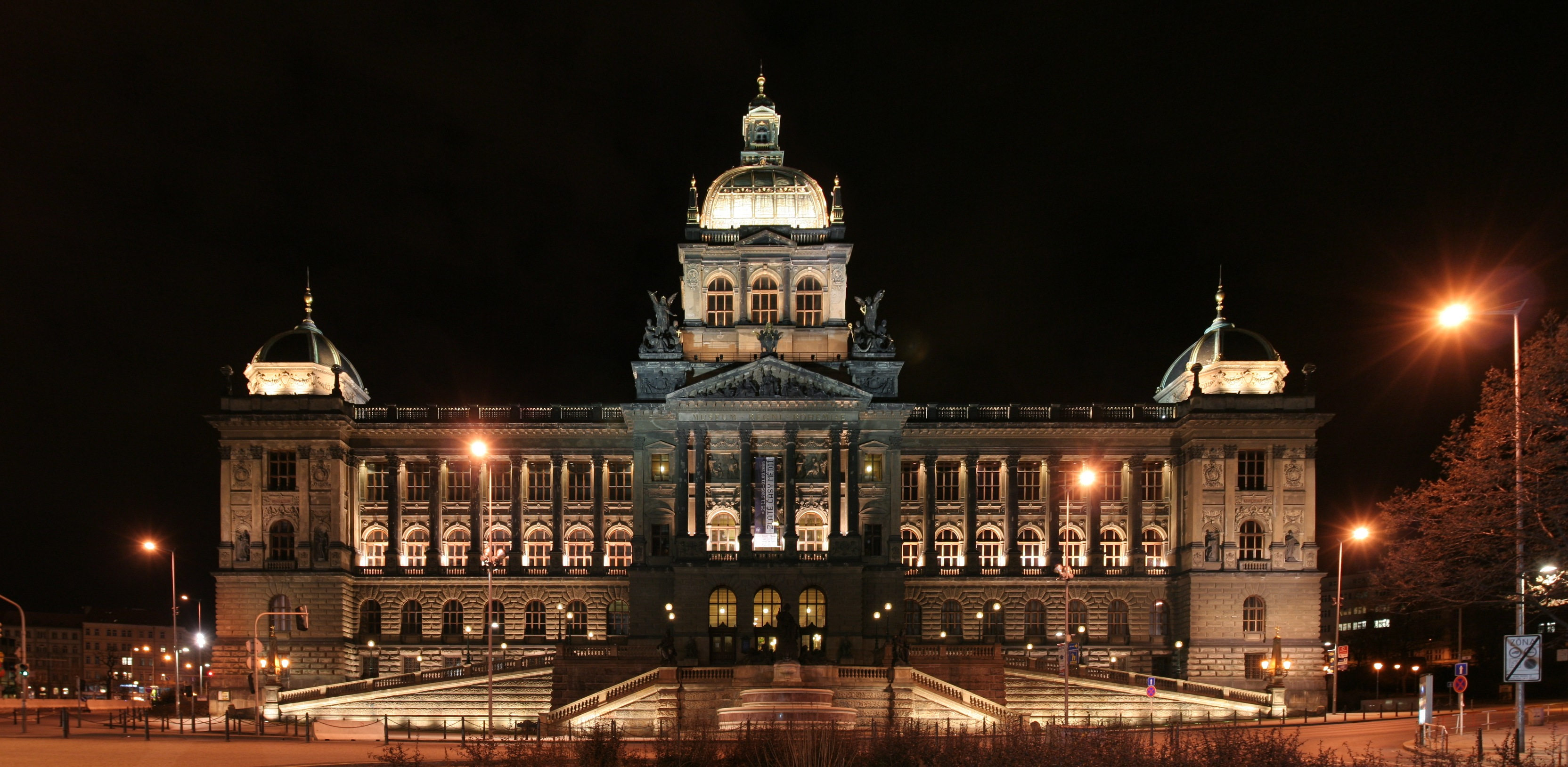 National Museum on Wenceslas Square in Prague